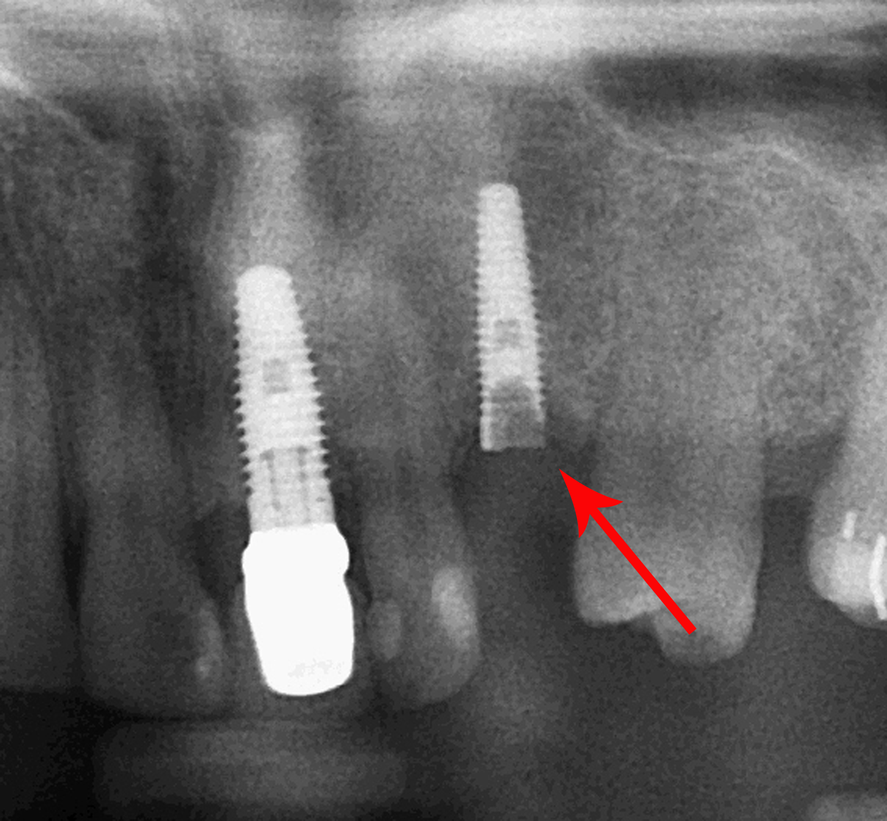 Fracture of an implant and abutment screw. Part of the abutment screw can still be seen in the implant.